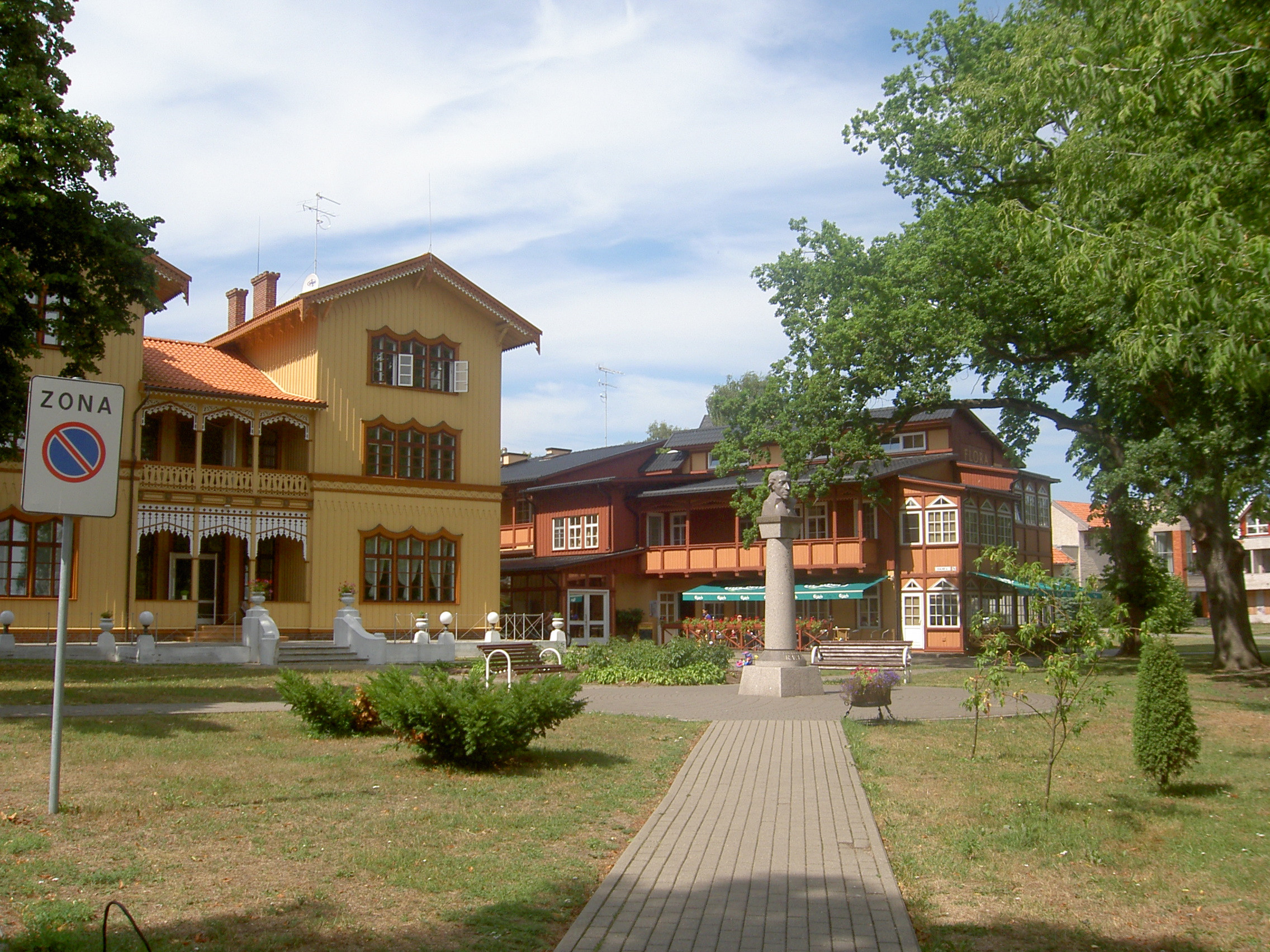 Resort houses in Juodkrantė, Lithuania.